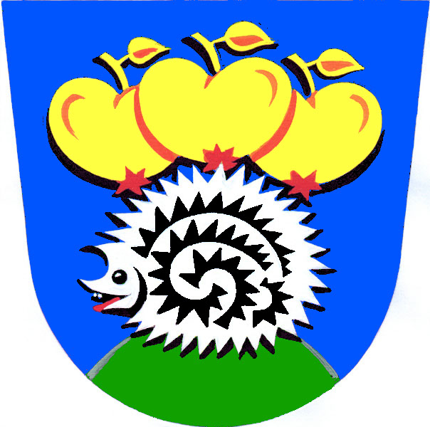 Municipal coat of arms of Ježkovice village, Vyškov District, Czech Republic.